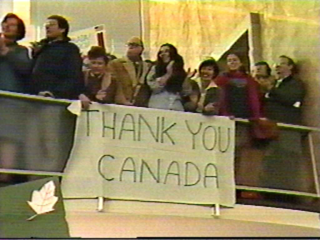 People welcoming six freed hostages back to the United States, as a result of the Canadian Caper.